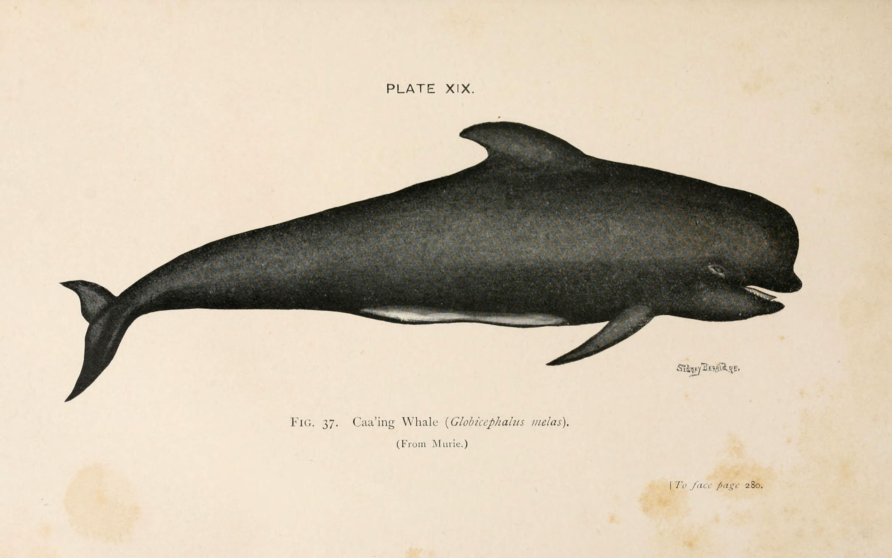 A book of whales London,J. Murray;1900.